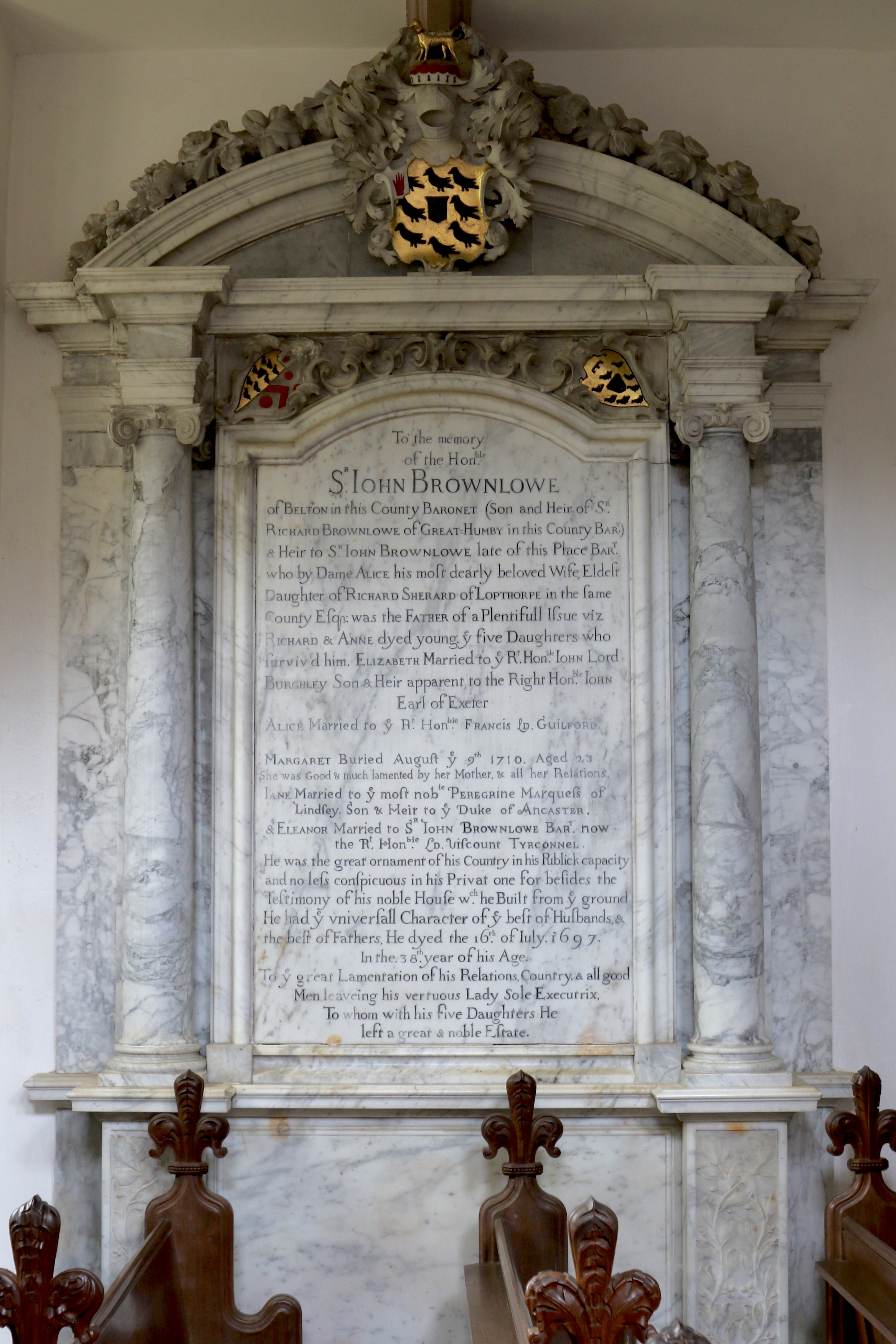 Mural monument in Belton Church, Lincolnshire, to Sir John Brownlow, 3rd Baronet (1659-1697) of Belton House near Grantham in Lincolnshire, who built the surviving Belton House. Large shield at top Or, an escutcheon within an orle of martlets sable (Brownlow). The small shield at top left shows the arms of Brownlow impaling Sherard (Argent, a chevron gules between three torteaux), for his wife. Memorial by W. Stanton